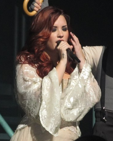 Demi Lovato in December 2011.